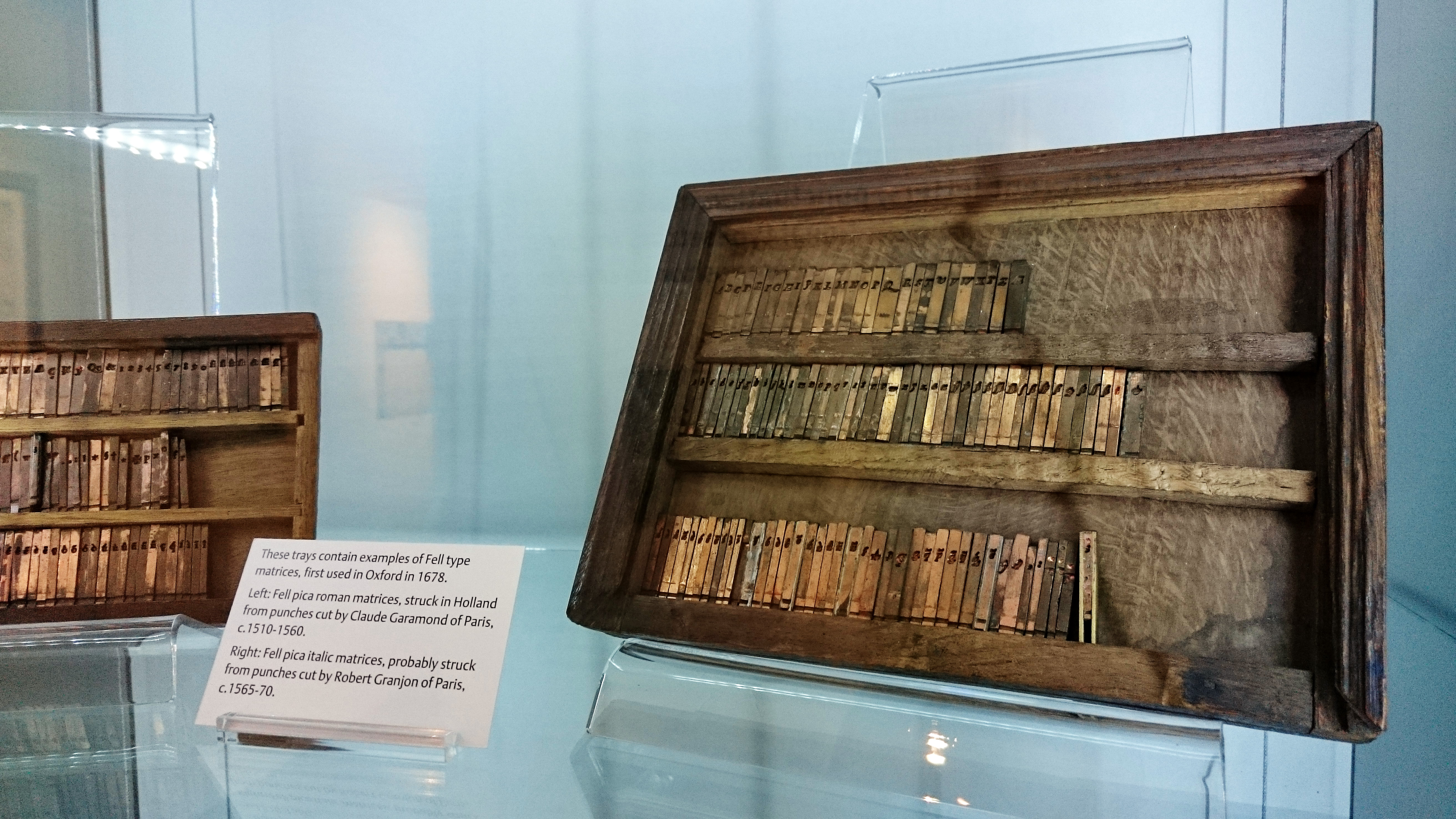 Matrices for the Fell types. (Photo: AM/Aepm)